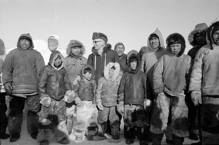 Governor General of Canada Vincent Massey with Inuit inhabitants of Hall Beach, Nunavut (then Northwest Territories).